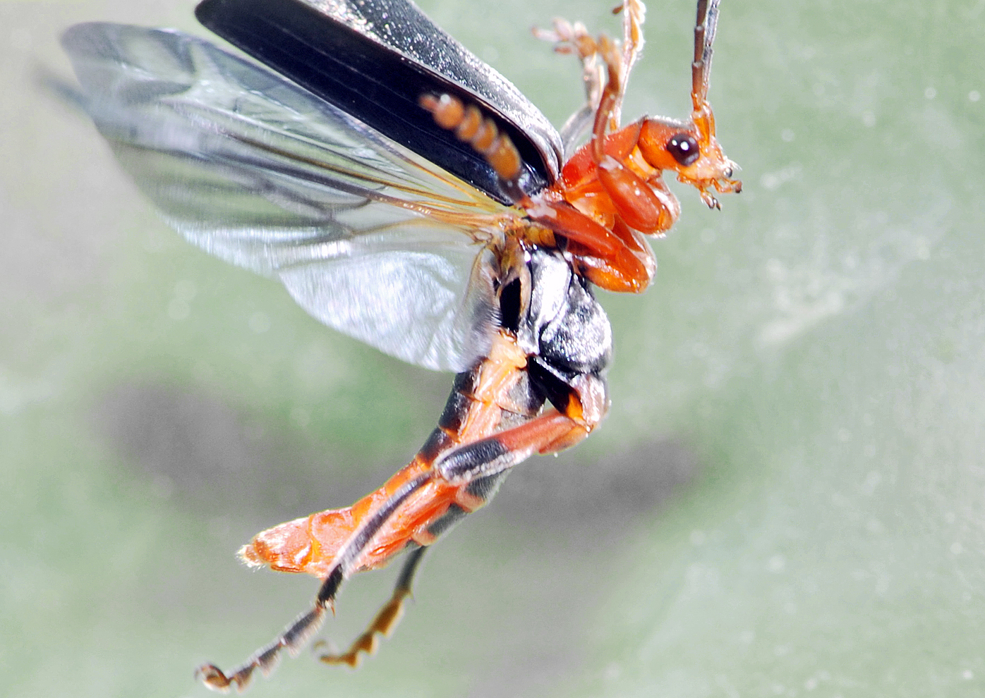 Cantharis livida var. rufipes, superfamily: Elateroidea caught in flight